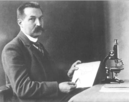 An image of Alfred Kahl, probably taken in his late forties, according to Wilhelm Foissner. The photographer is unknown.